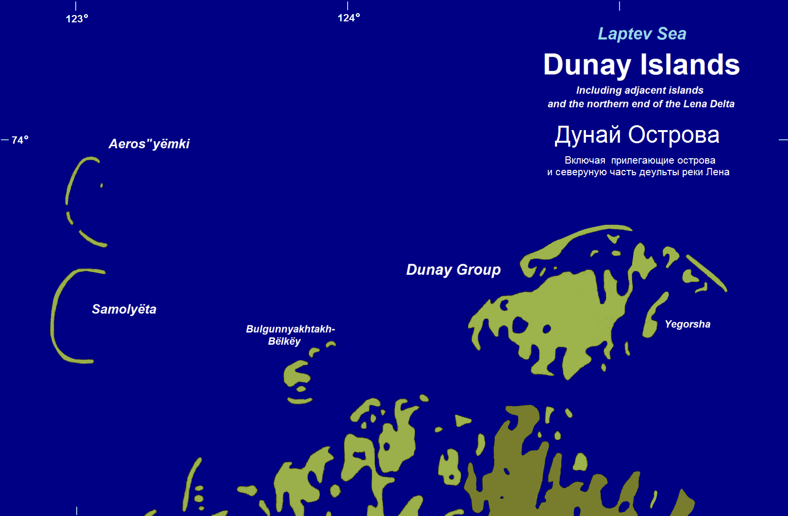 color map of island group